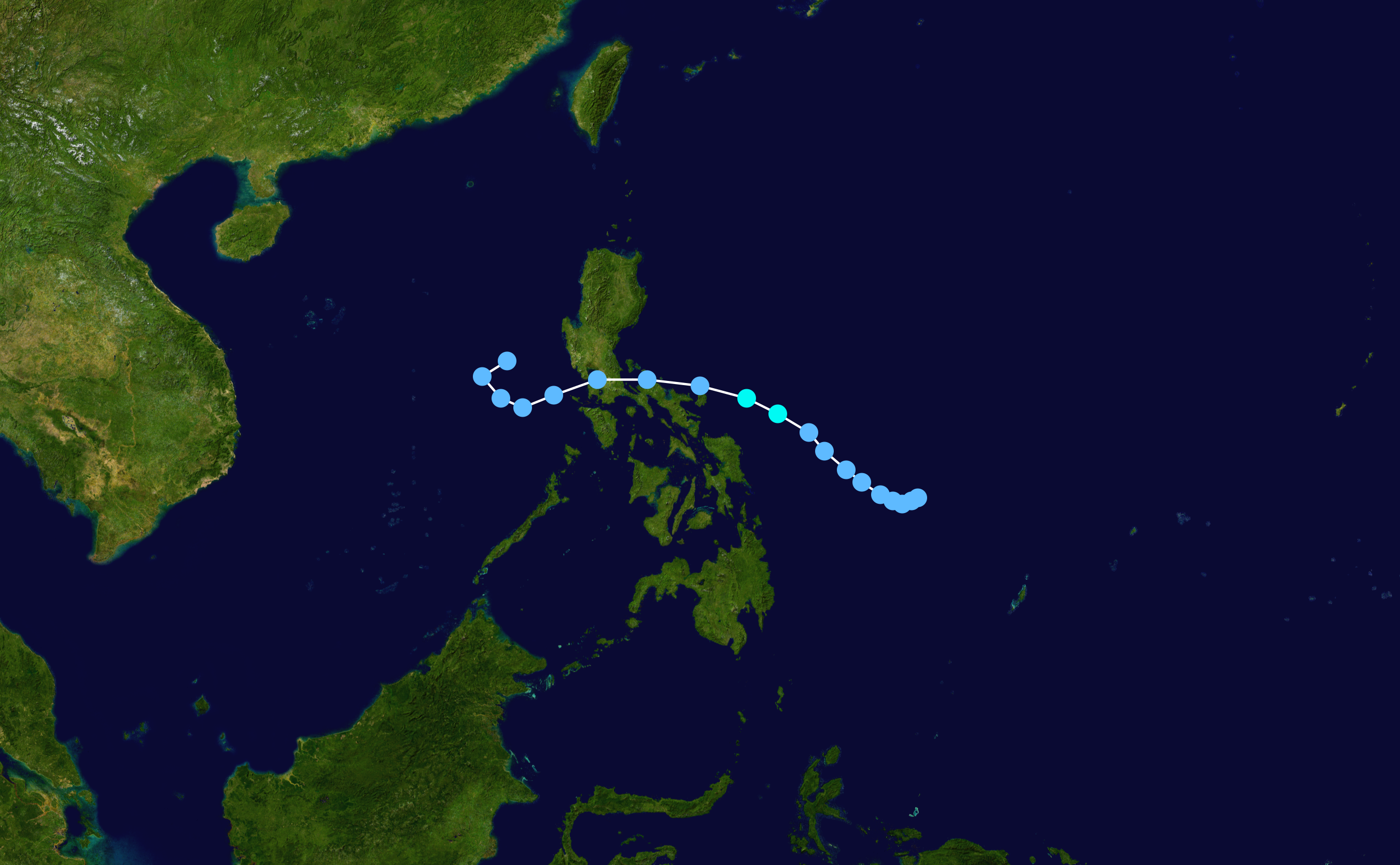 Tropical Storm Milenyo 2002 track. Uses the color scheme from the Saffir-Simpson Hurricane Scale.